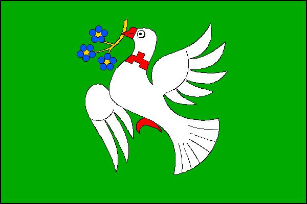 Bratřejov,_flag